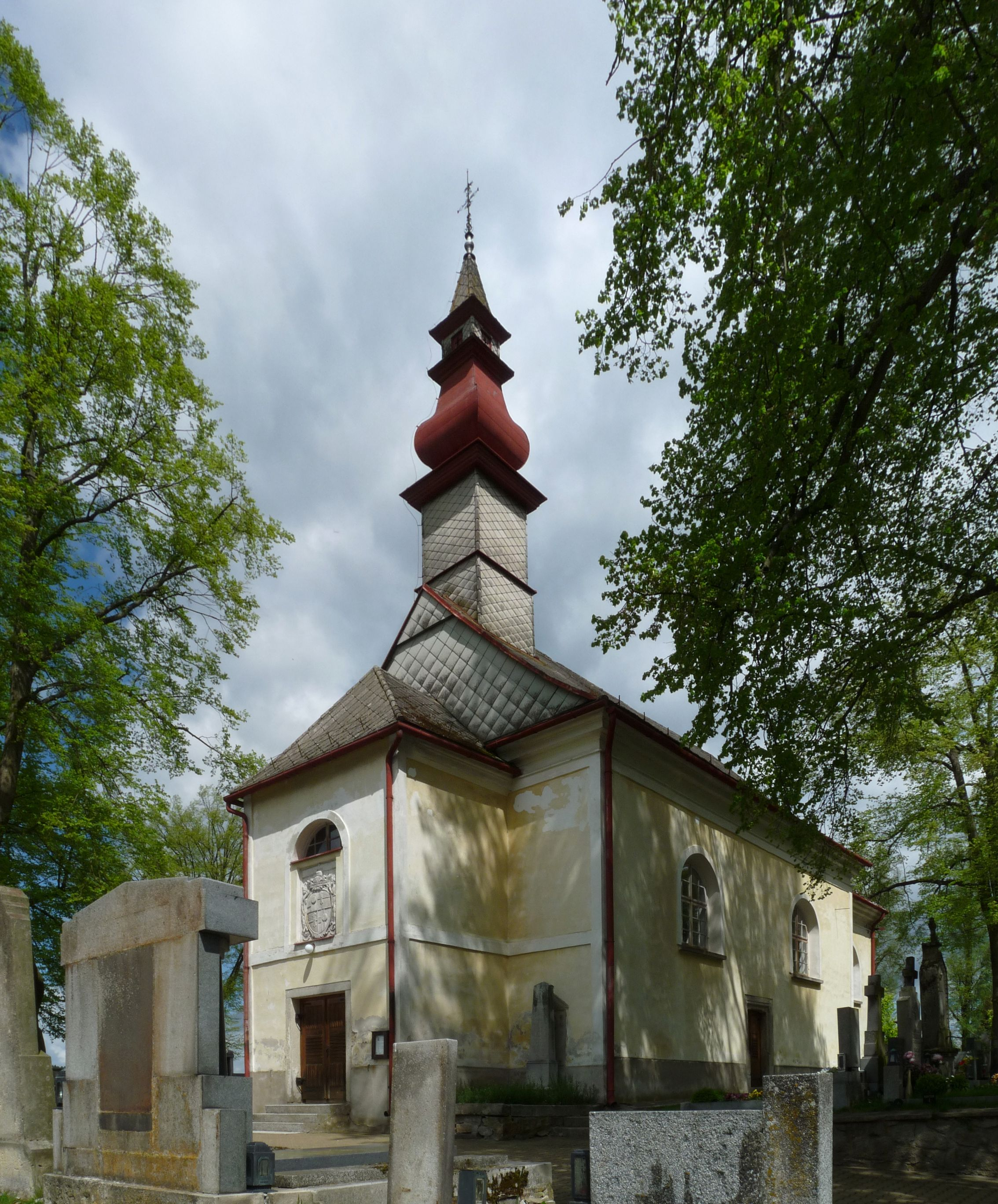 Church of Saint John the Baptist in the town of Horní Cerekev, Jihlava District, Vysočina Region, Czech Republic.